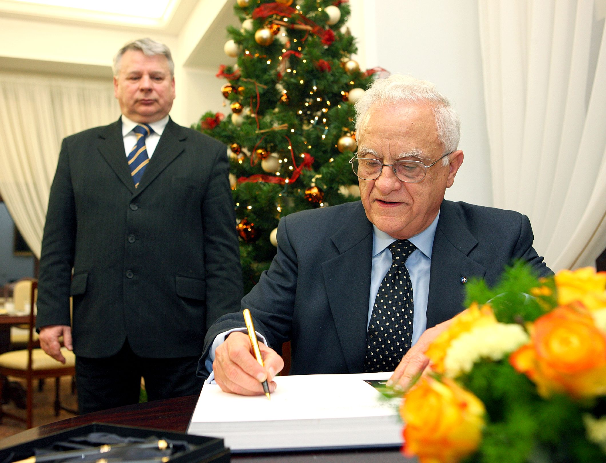 President of Malta Edward Fenech Adami in the Polish Senate